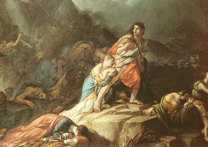 Non-cropped, full image area